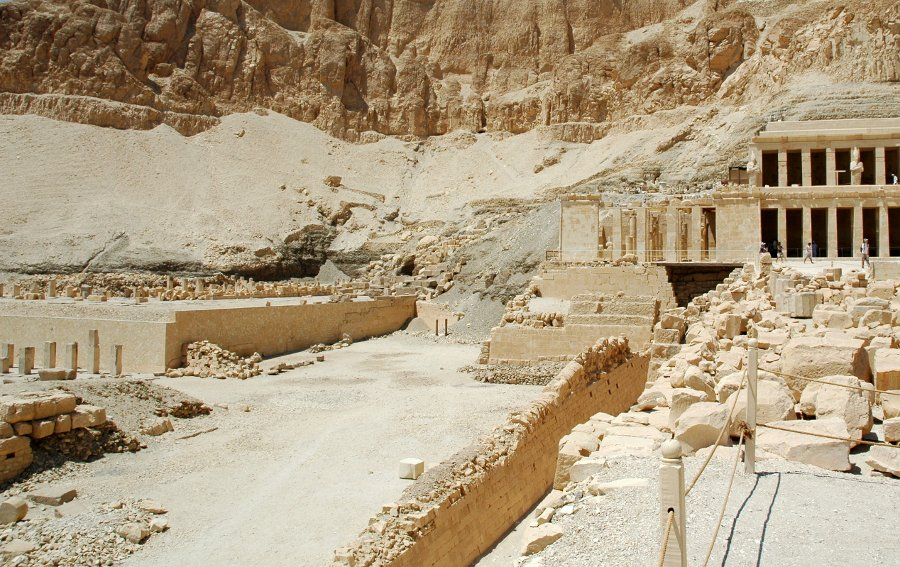 The remains of the Temple of Thutmosis III (Djeser-achet) between the Mortuary Temple of Mentuhotep II (left) and the Mortuary Temple of Hatschepsut (right) in Deir el-Bahari